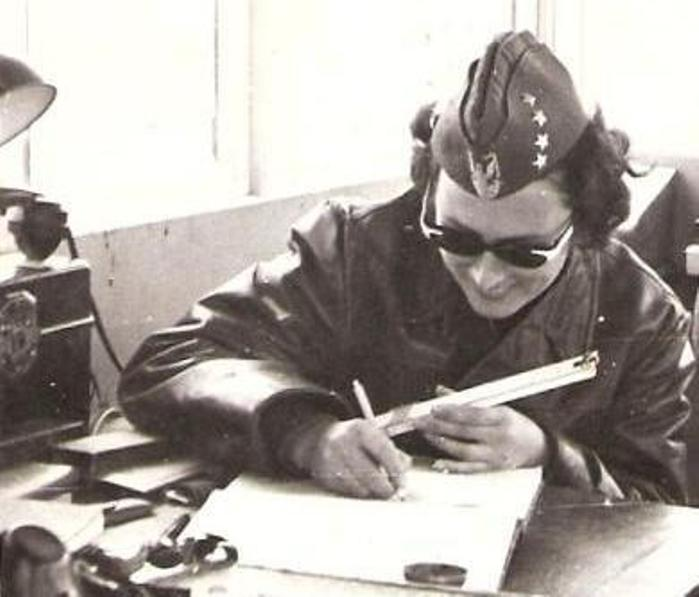 kpt. pil. Zofia Adrychowska jako DKL na lotnisku 64 LPS, 1961